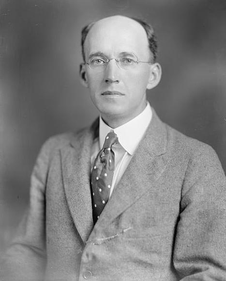 Richard F. McKiniry, Congressman from New York